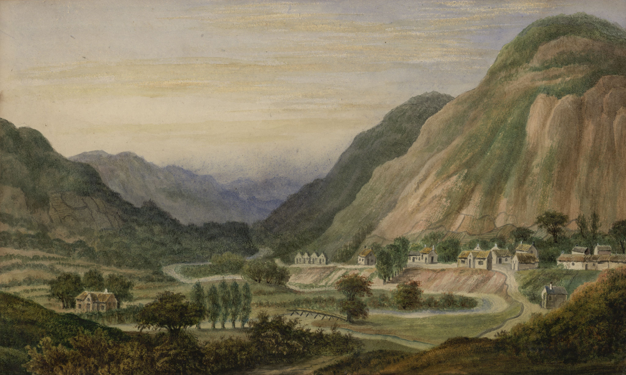 Numerous drawings and landscapes of villages, towns and landmarks in Wales and Ireland. By French artist Alphonse Dousseau.